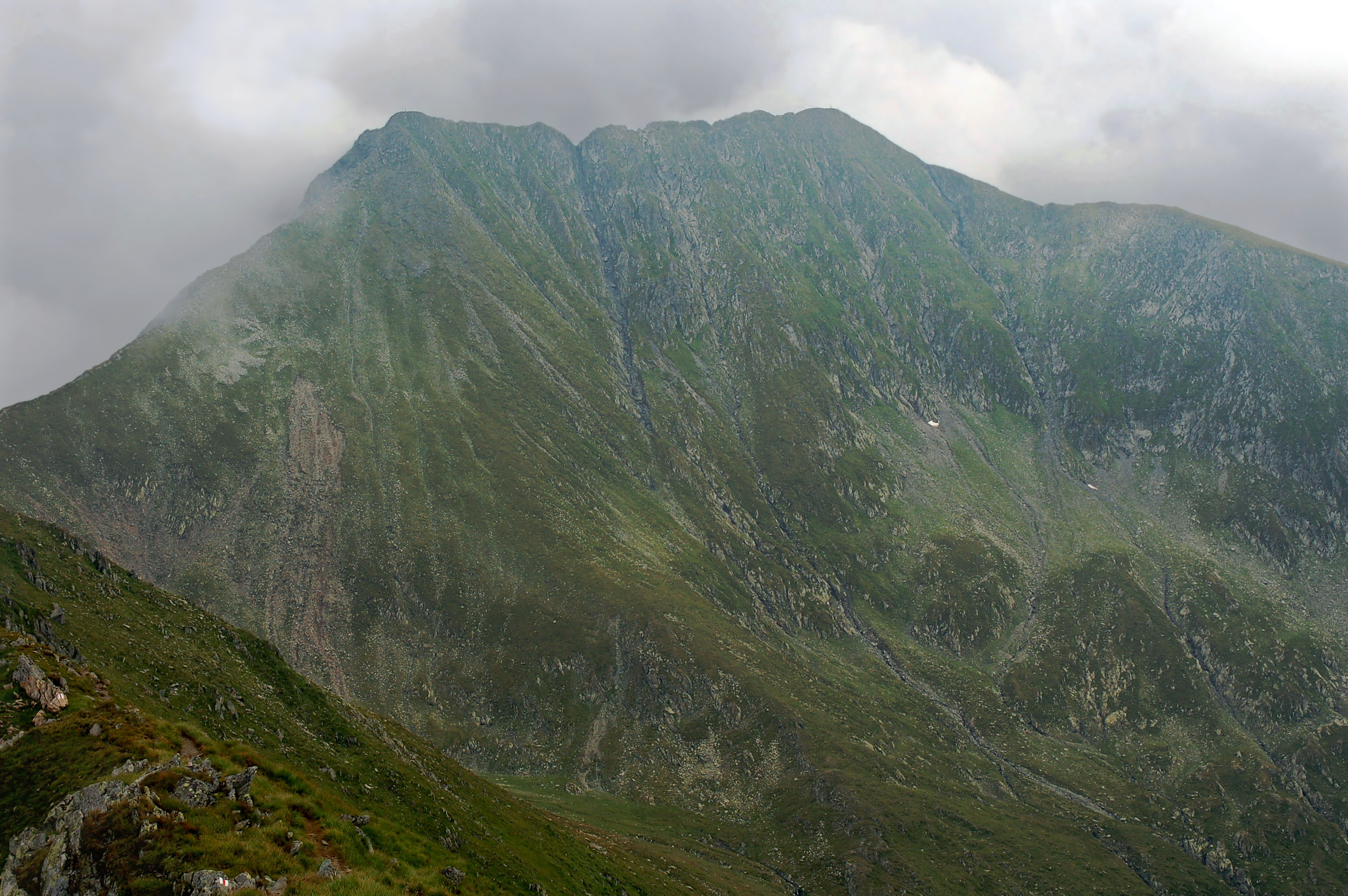 Moldoveanu (on the right) and Vistea Mare (left) from the west in Făgăraş Mountains, Romania